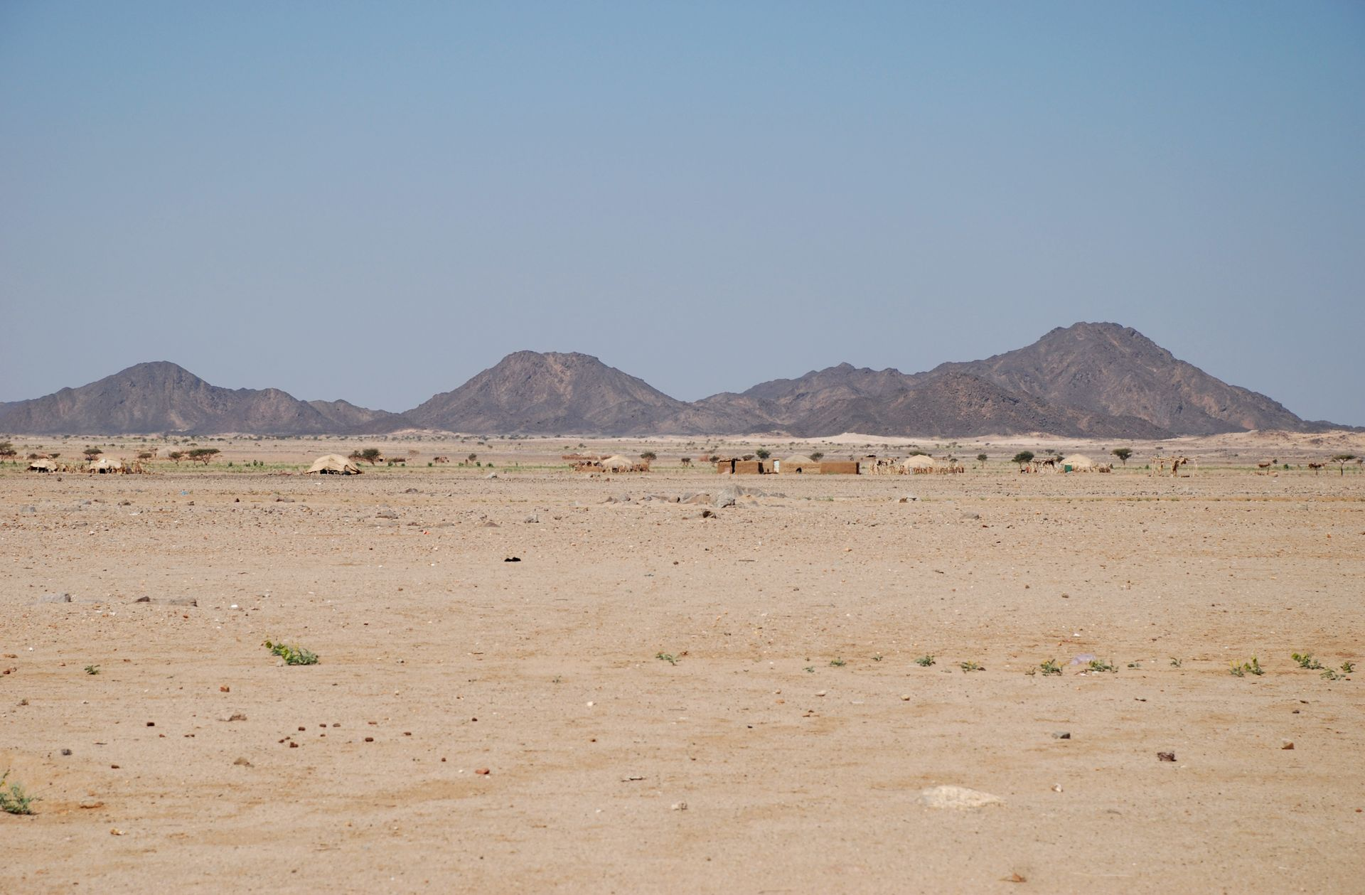 Desert south of Port Sudan